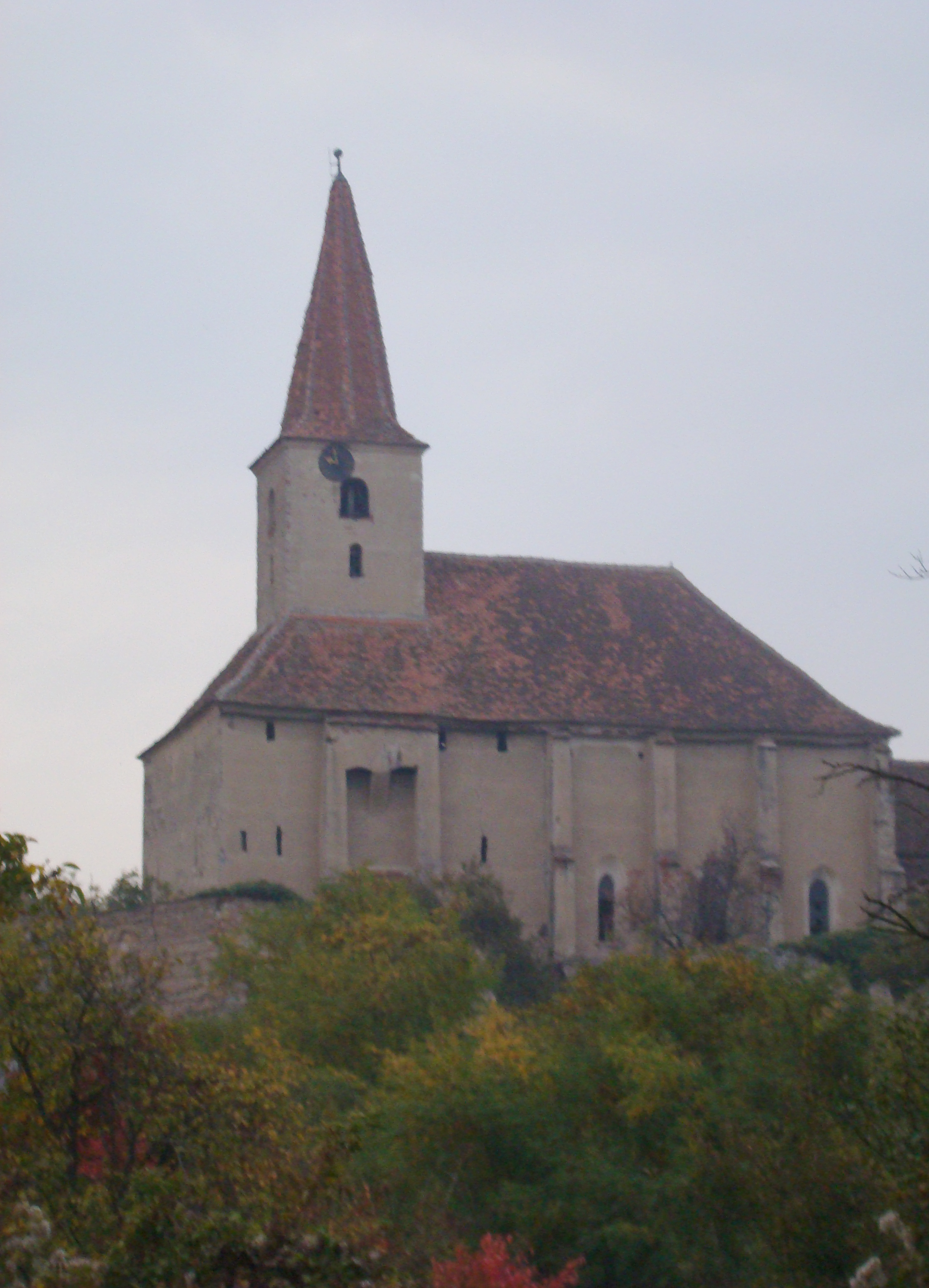 Saxon Lutheran church in Dobârca (Dobring) village, Sibiu County, Romania